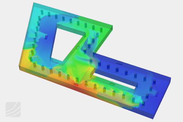 This image shows the simulation of steady state turbulent flow of smoke propagation in a parking garage. The smoke is treated as a passive scalar quantity in the flow. The simulation shows the smoke concentration at different locations in the domain. This analysis was performed with the SimScale cloud-based CAE platform.